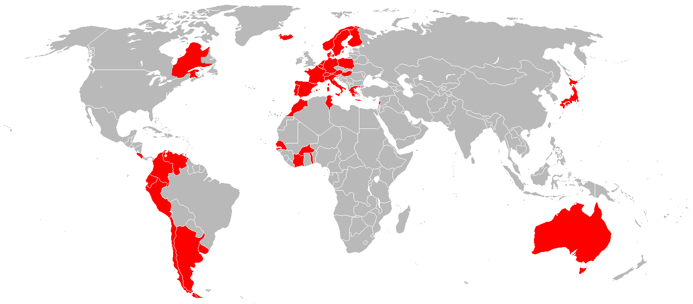 Countries where Attac associations exist